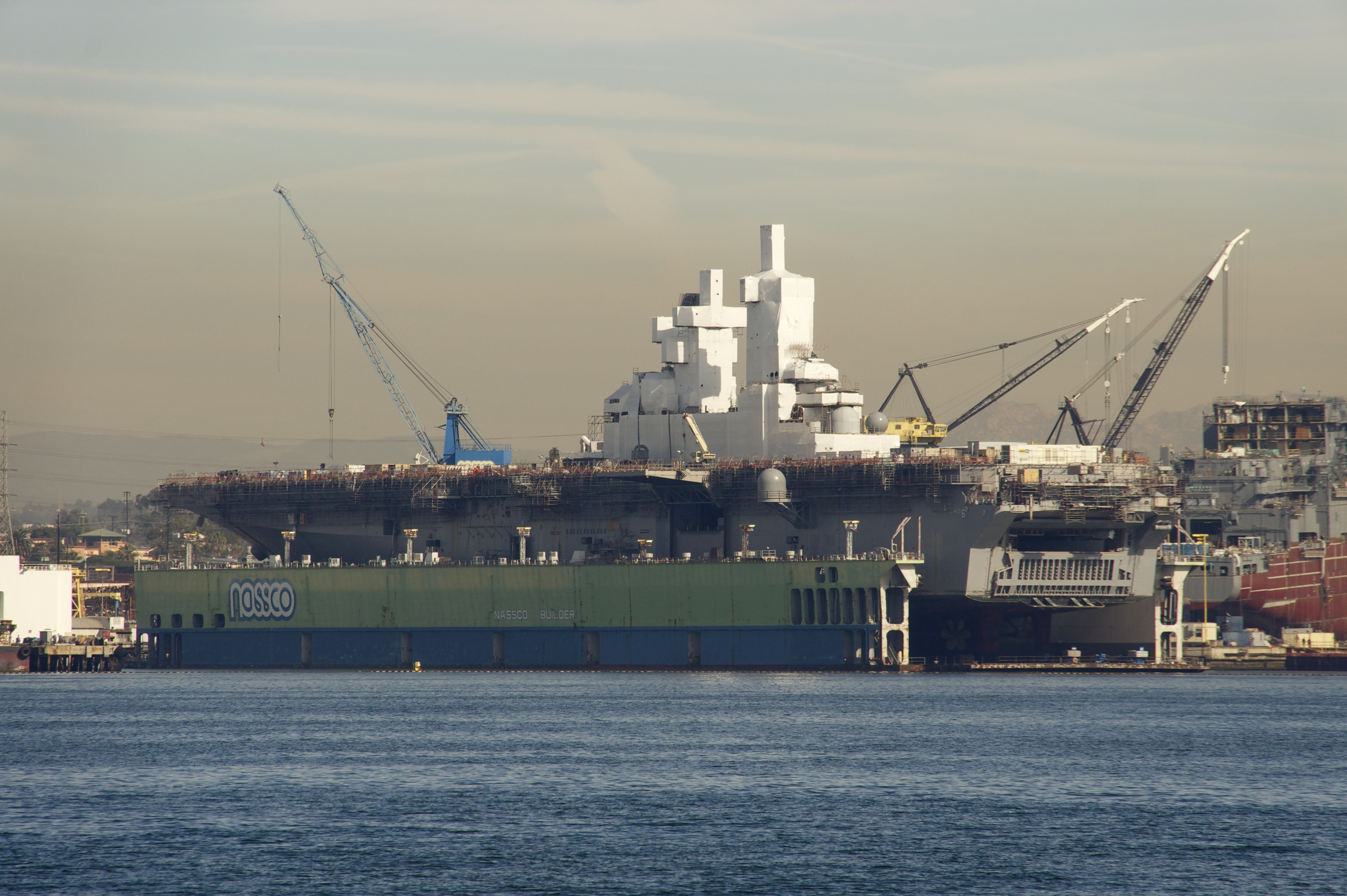 SAN DIEGO (Dec. 2, 2010) The amphibious assault ship USS Bonhomme Richard (LHD 6) is in dry dock at NASSCO Shipyard. Bonhomme Richard will undergo scheduled maintenance until April 2011. (U.S. Navy photo by Chief Mass Communication Specialist Joe Kane/Released)